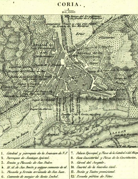 Map of Coria by Francisco Coello